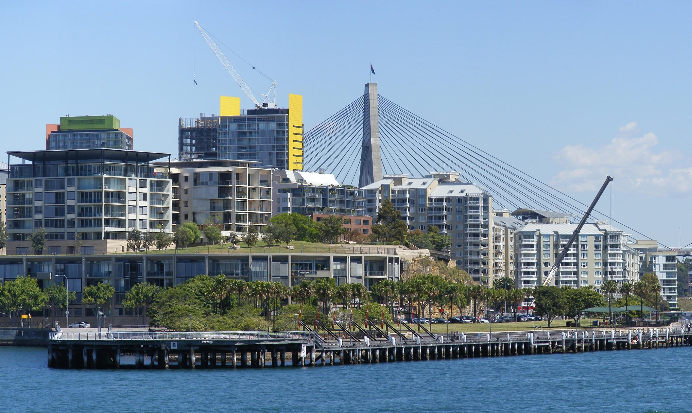 Pyrmont nsw